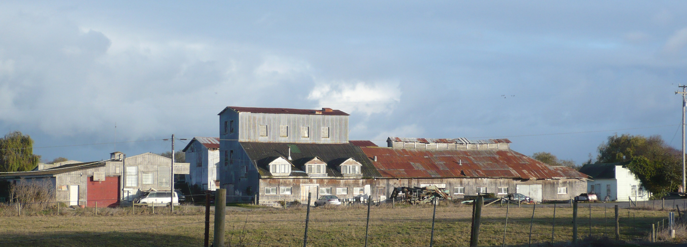 Valley Flower Creamery buildings on the north side of the Salt River at Dillon Road between Port Kenyon and Ferndale, California.